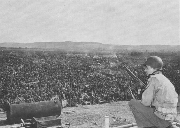 At a prisoner-of-war enclosure near Remagen, Germany, a U.S. soldier takes part in keeping guard over thousands of German soldiers captured in the Ruhr area.